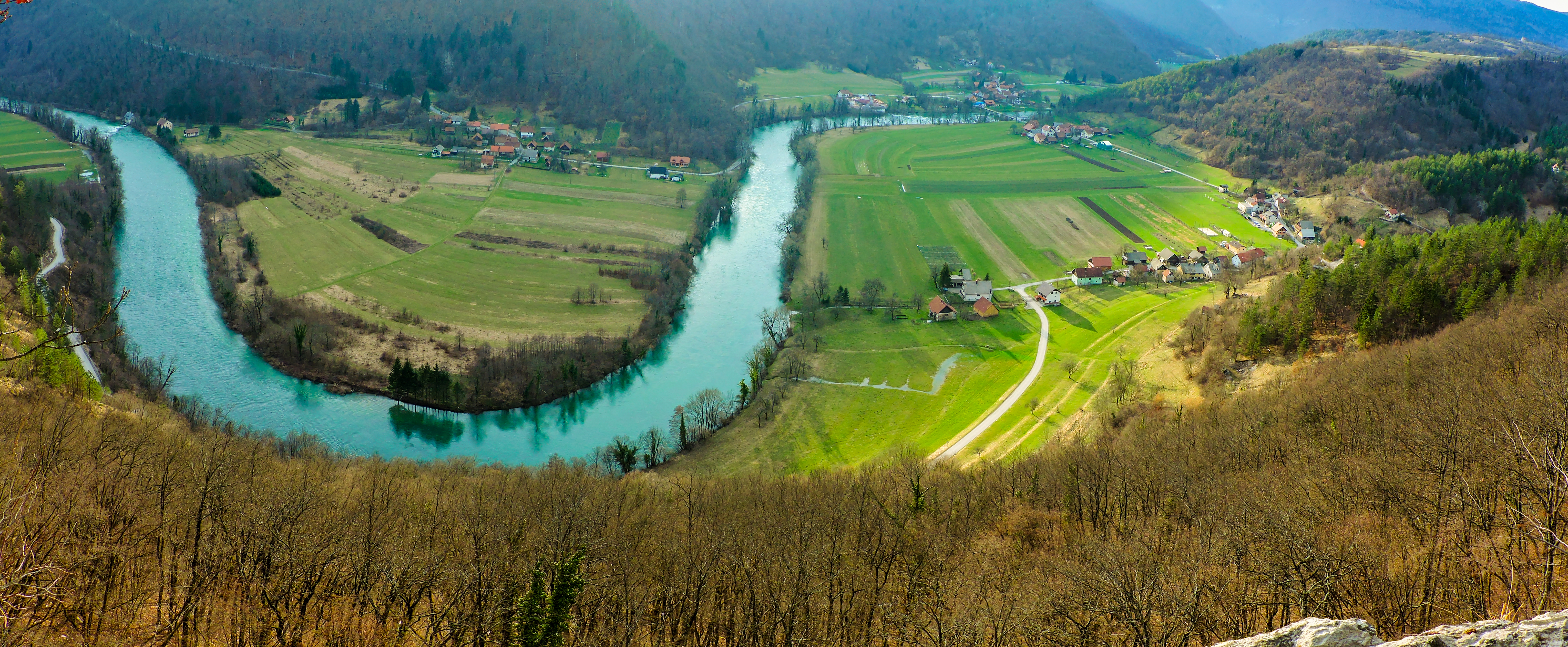 Photo taken from "Sodevska stena", named after the village Sodevci seen on the right. On the other side of the river is Croatia, with the villages of Zapeć (upper left) and Blaževci (upper right). The Kolpa river is 294 km long. For 118 km it is a border river between Slovenia and Croatia. It is popular in the summer because of it numerous camps, swimming and other various events.